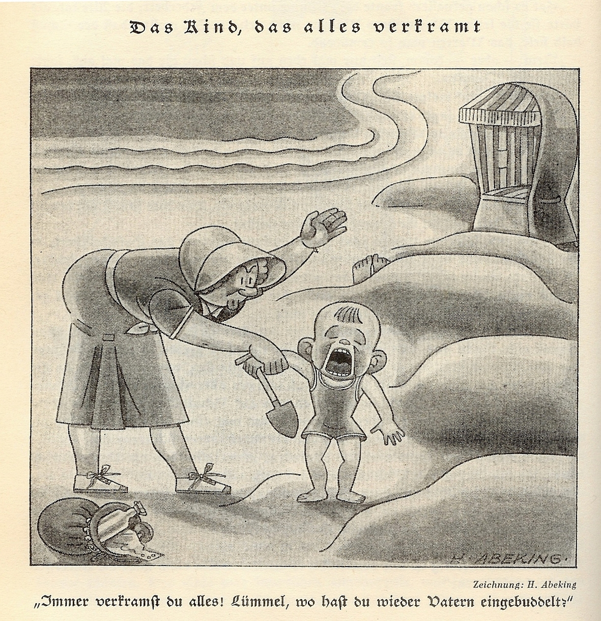 Hermann Abeking (1882-1939) - The child who misplaces everything